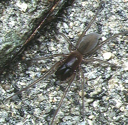 female Desis japonica from Okinawa.